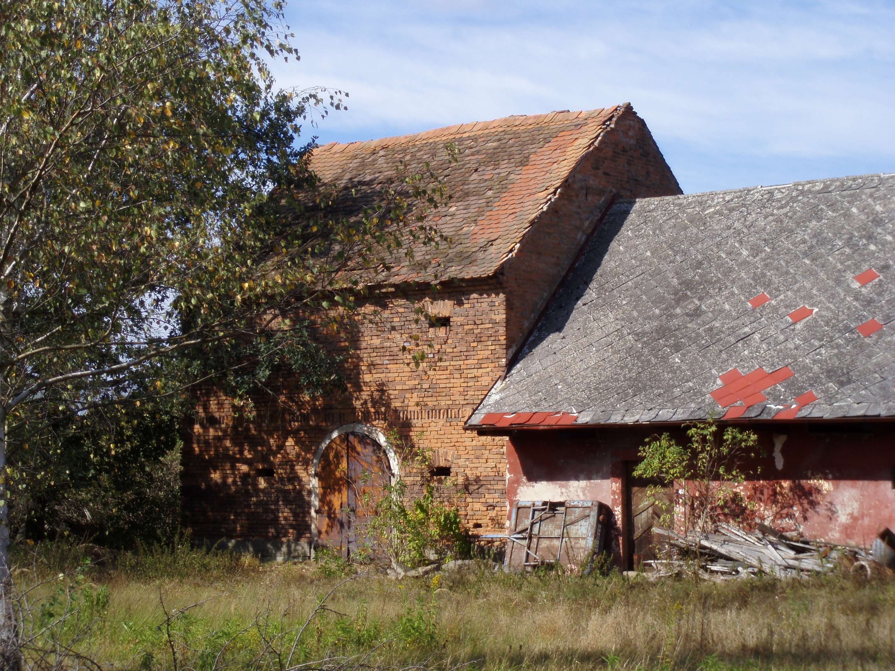 Building called Červený Dvůr in Hradec Králové (Czechia)